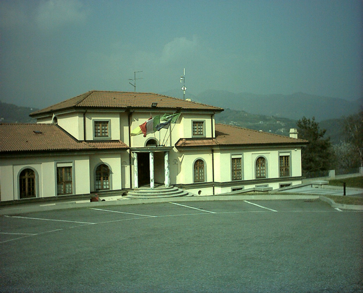 Town hall of Bedulita, Bergamo, Italy